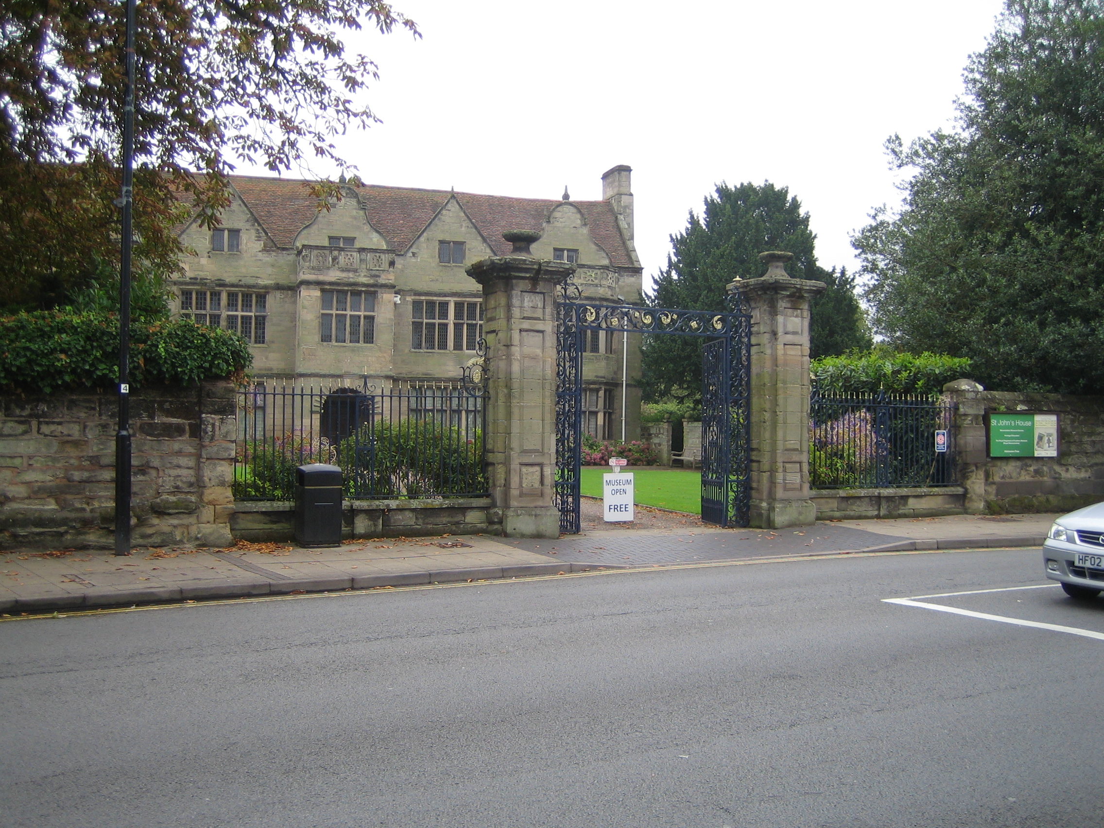 ENTRANCE GATEWAY TO ST JOHN'S HOUSE AND FLANKING BOUNDARY WALLS Wikidata has entry Q17552169 with data related to this building.